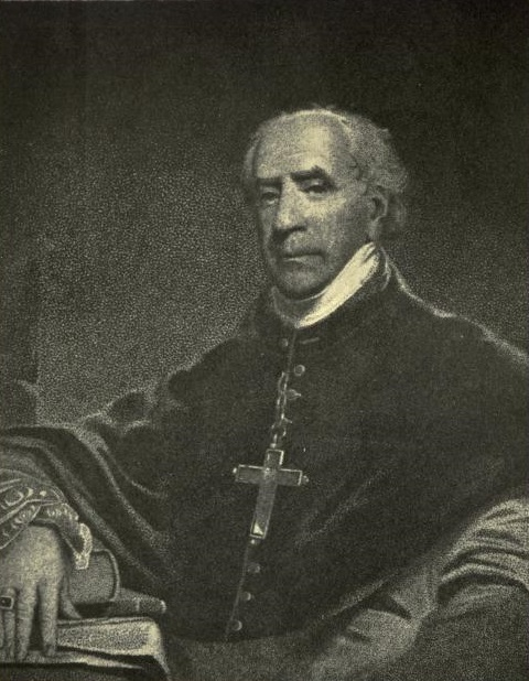 Portrait of Henry Conwell